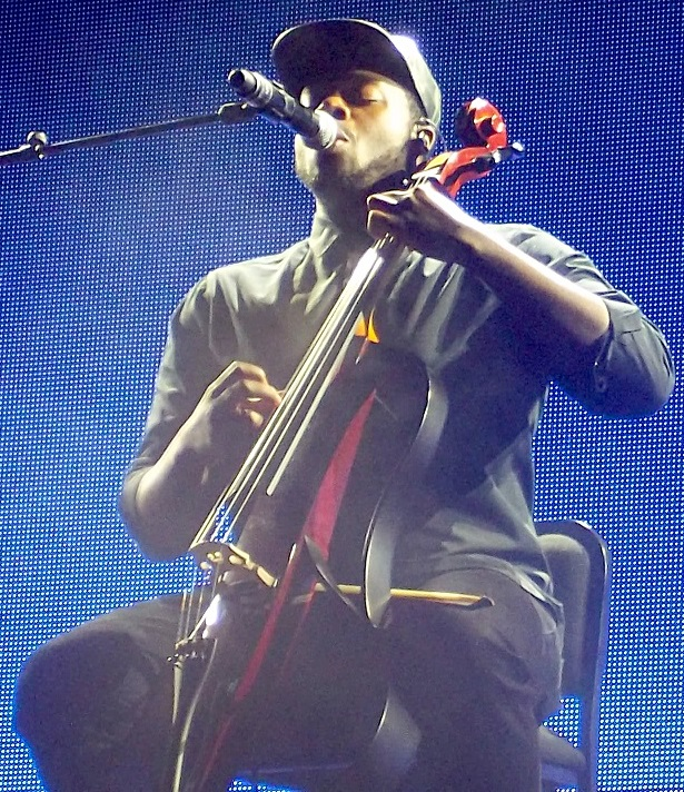 Kevin Olusola performing with Pentatonix in Barcelona (2015)